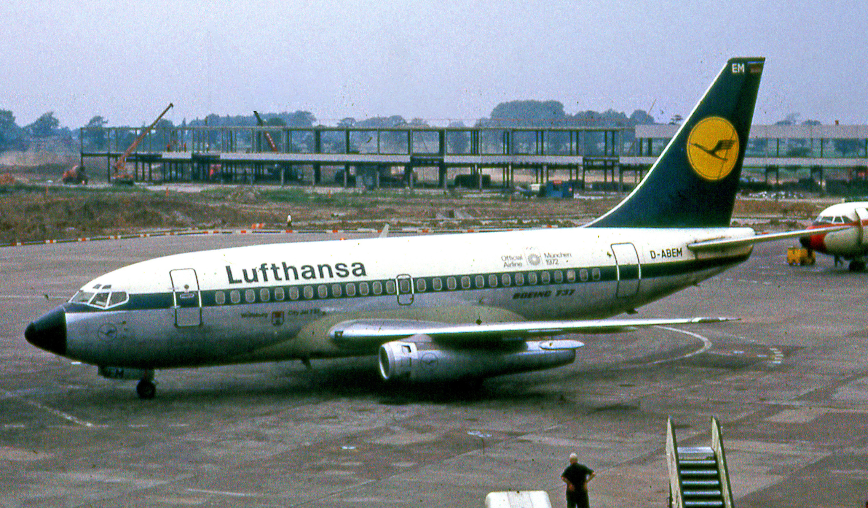 A Lufthansa Boeing 737and Dan Air BAC 1-11 at Manchester Airport in 1972.